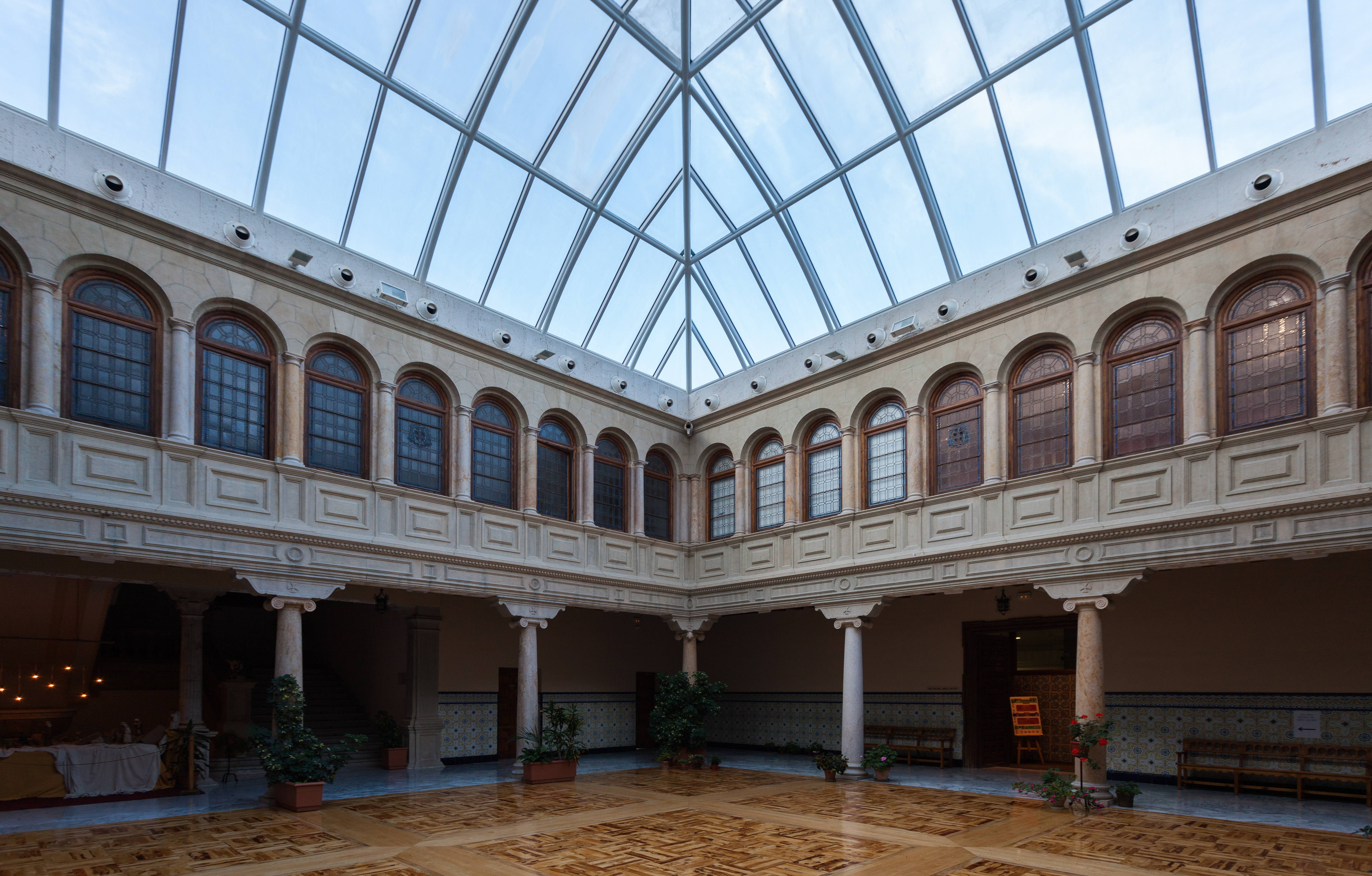 Religious art museum, Teruel, España